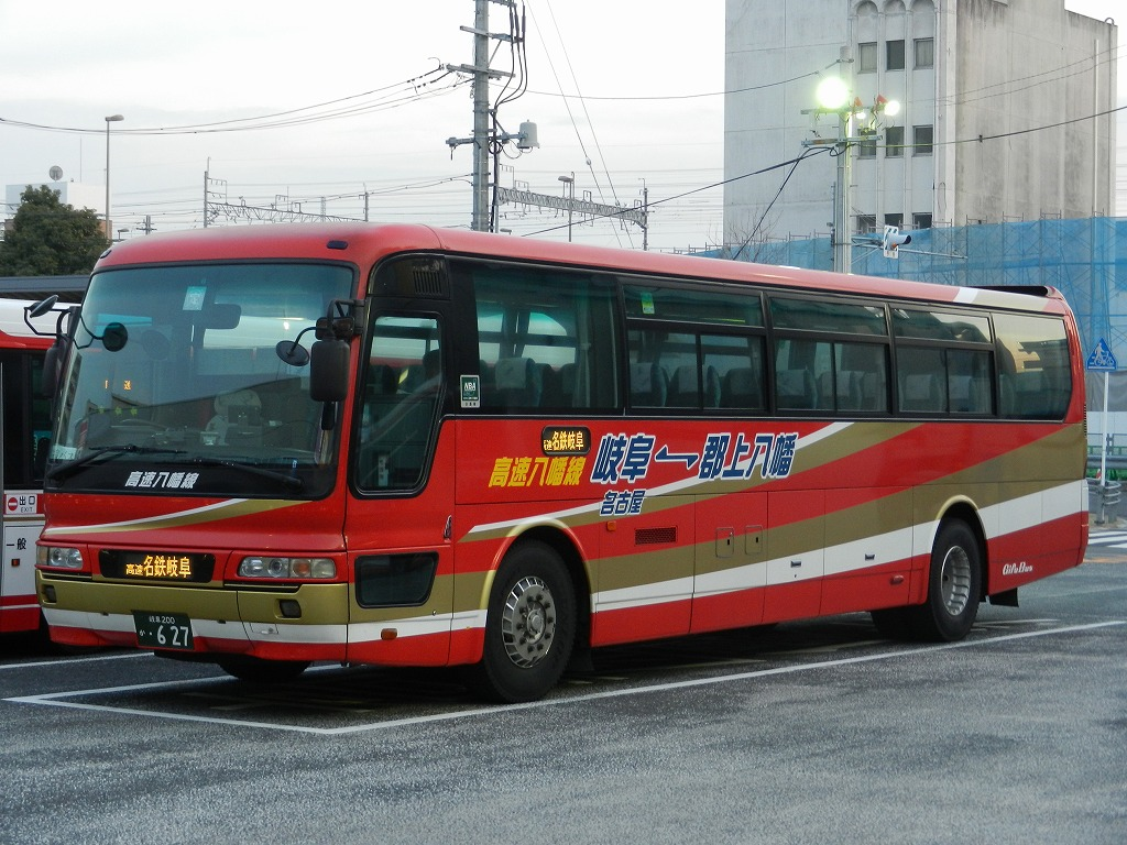 Gifu bus Mitsubishi Fuso Aero Bus Standard decker (KL-MS86KS)for Highwaybus Hachiman line